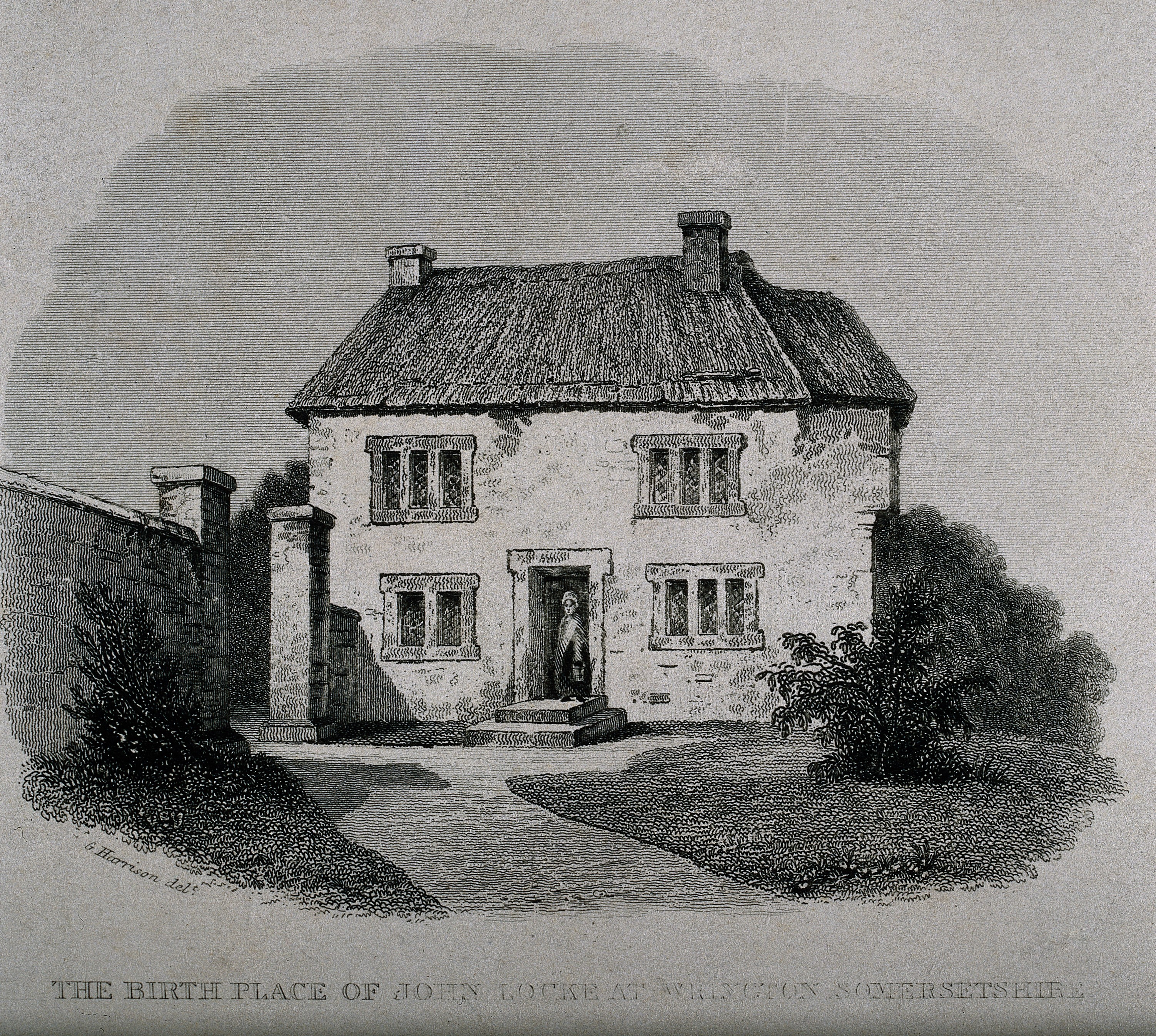 The cottage in Wrington, where John Locke was born. Etching. Iconographic Collections Keywords: G. Harrison; John Locke